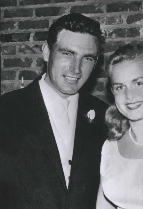 1961 Press Photo Olympic Skiers Penny Pitou and With Her Husband Egon Zimmermann